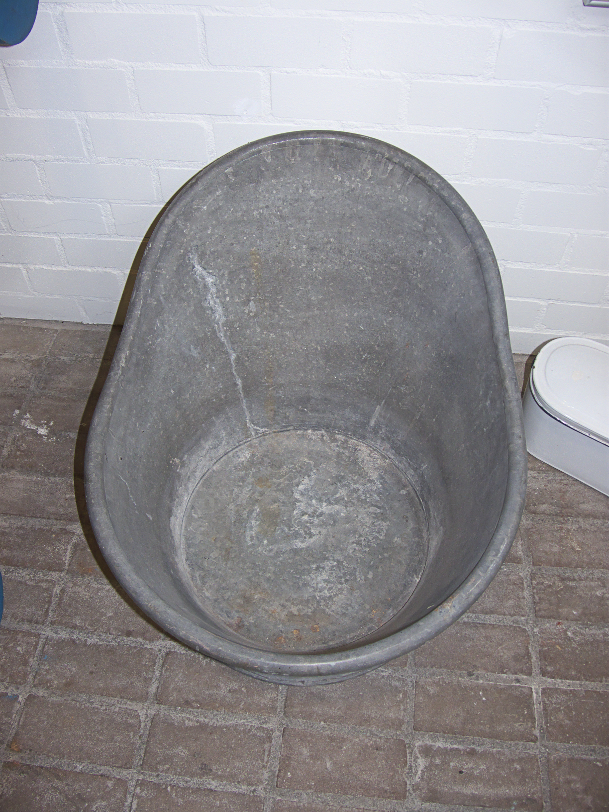 Bathtub